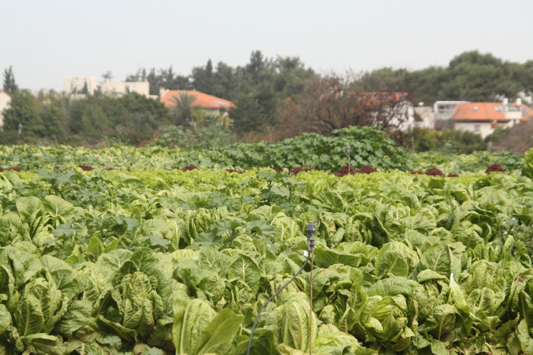 Cabbage field, Ramat Hasharon